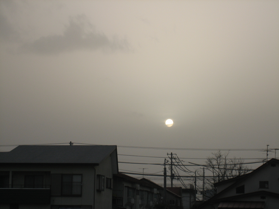 A picture of the sun obscured by seasonal Asian Dust. Photo was taken during the second day of the event in Aizu-Wakamatsu, Japan with a Canon PowerShot SD450 Digital Elph camera. Image file extension was changed using a Paint Shop program on a laptop computer.